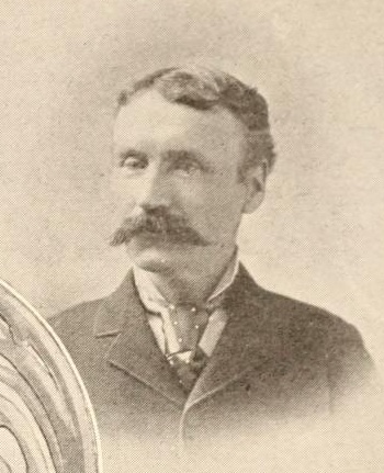 Portrait of New York state senator Henry Marshall, of Brooklyn Other information none